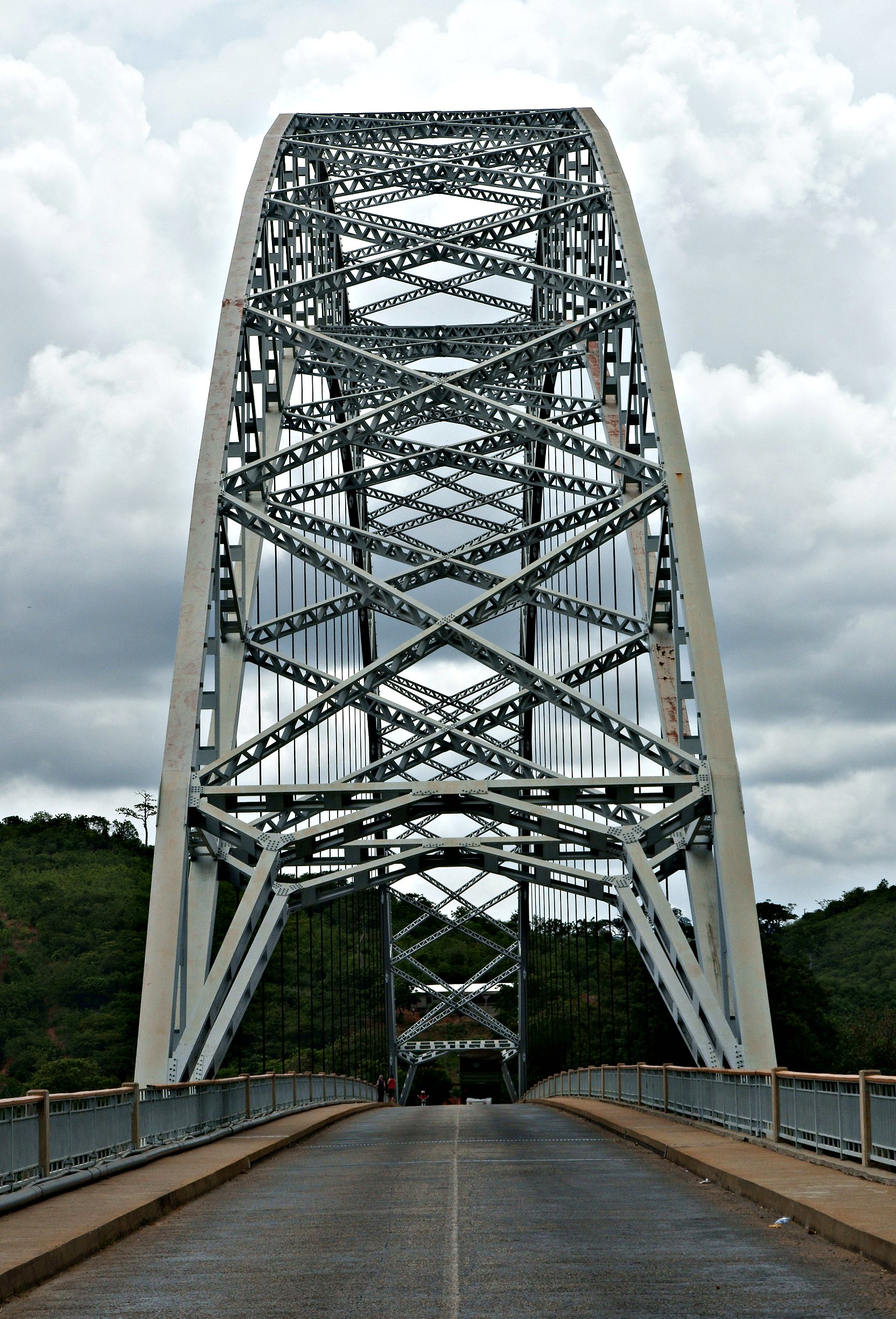 Original description:The Adome Bridge was built in the years 1955-1956 and spans 805 feet in its main part. The weight of the steel is 320 tons according to the plaque at one end of the bridge, where unfortunately someone has recently placed a lampost right in front of which makes reading difficult.